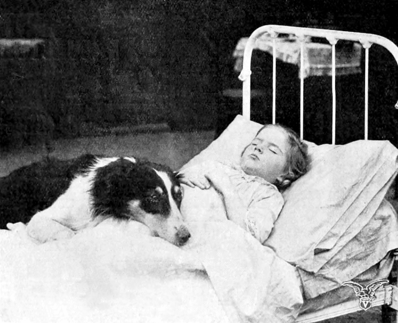 Promotional photograph from the 1912 film, Playmates, starring Jean, the Vitagraph dog